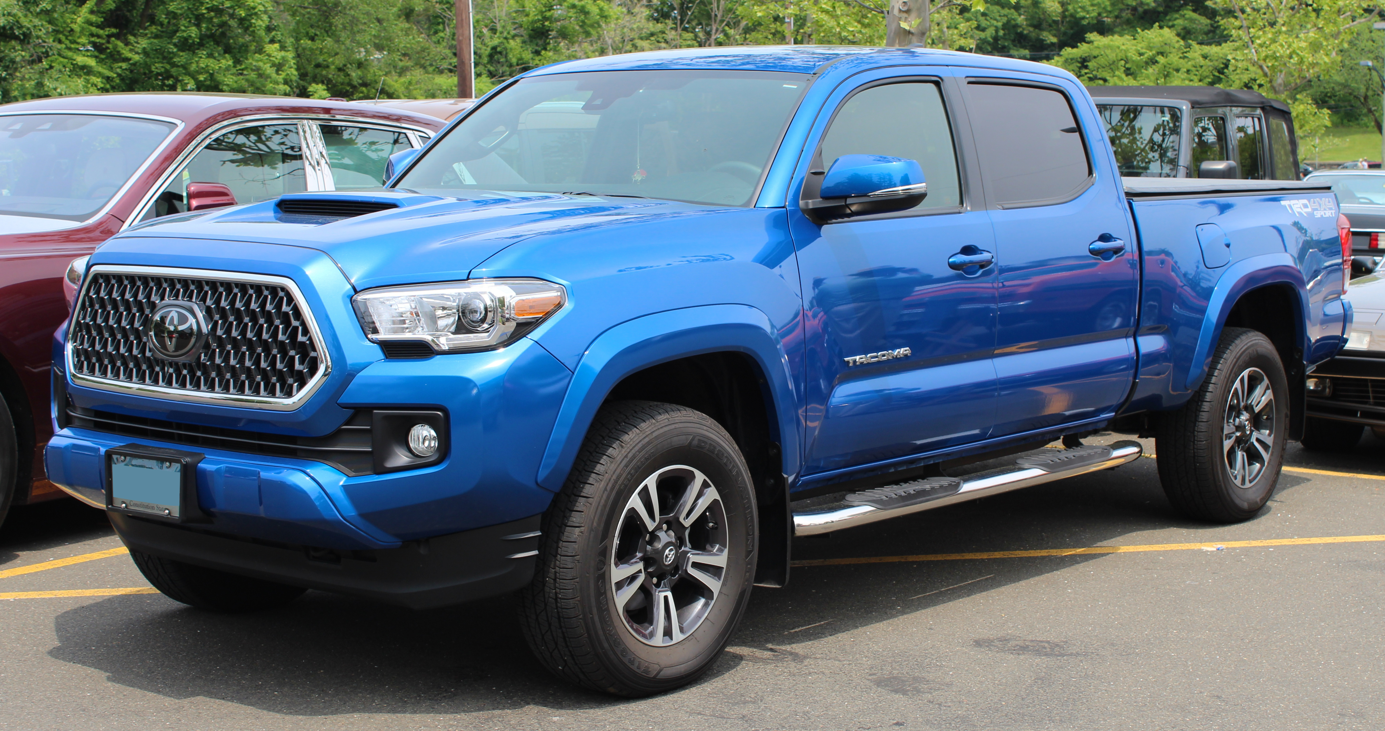 A 2018 Toyota Tacoma TRD Sport photographed in Greenwich Concours d'Elégance Hagerty parking lot, Connecticut, USA